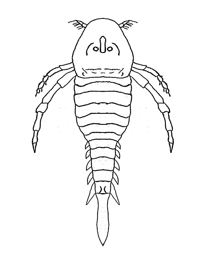 Reconstruction of H. excelsior.